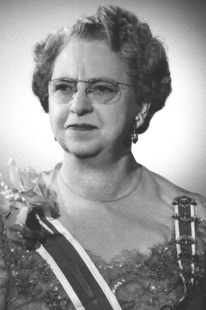 1952 image of Emily Gibson Braerton (Mrs. Warder Lee Braerton) as Vice President General of the National Society of the Daughters of the American Revolution and Colorado State Regent (1950-1953).